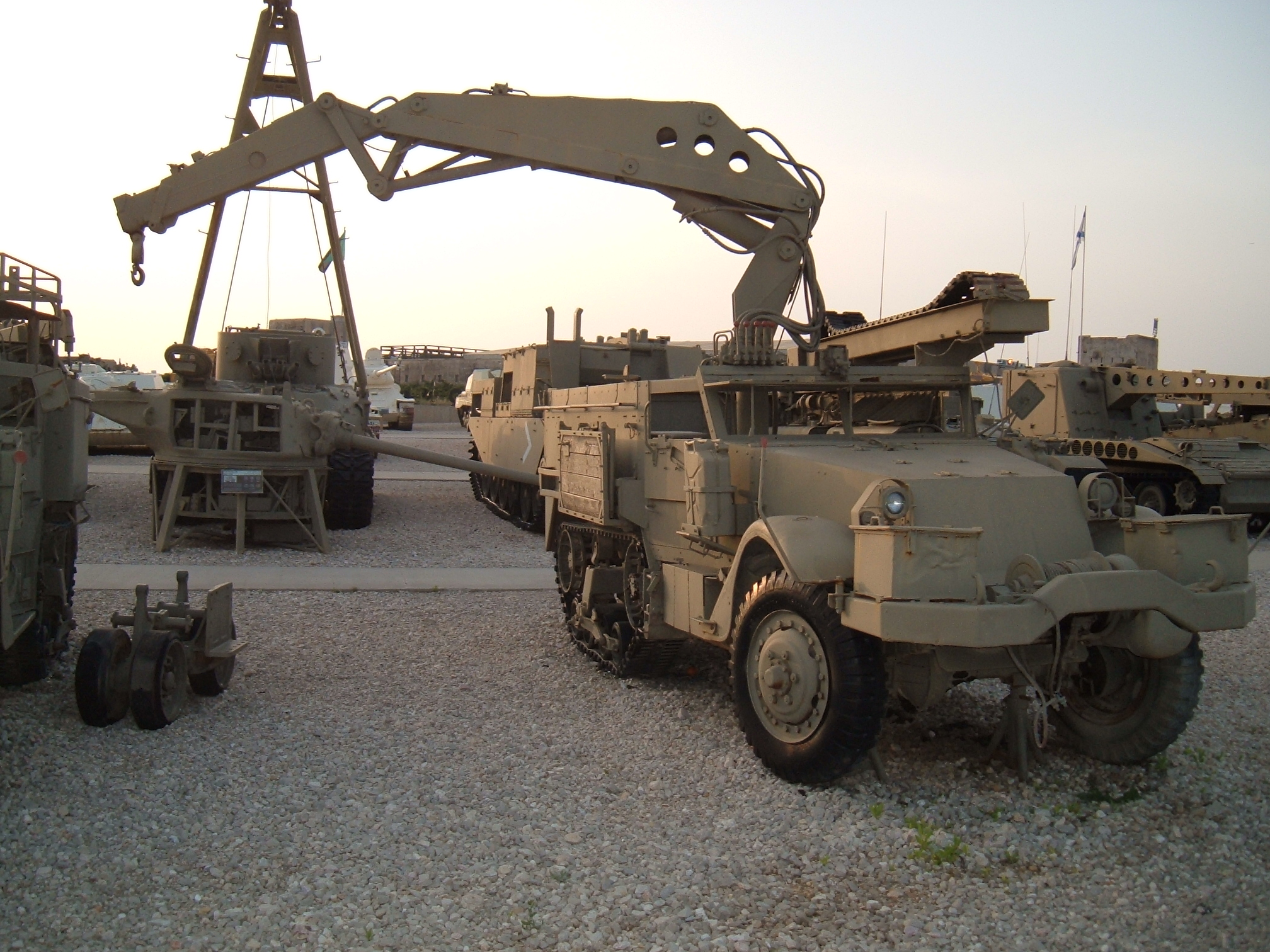 I took this pic. Remark: It's M3, not M5.